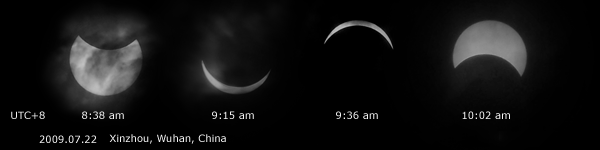 Solar eclipse 2009-07-22 Xinzhou, Wuhan, China